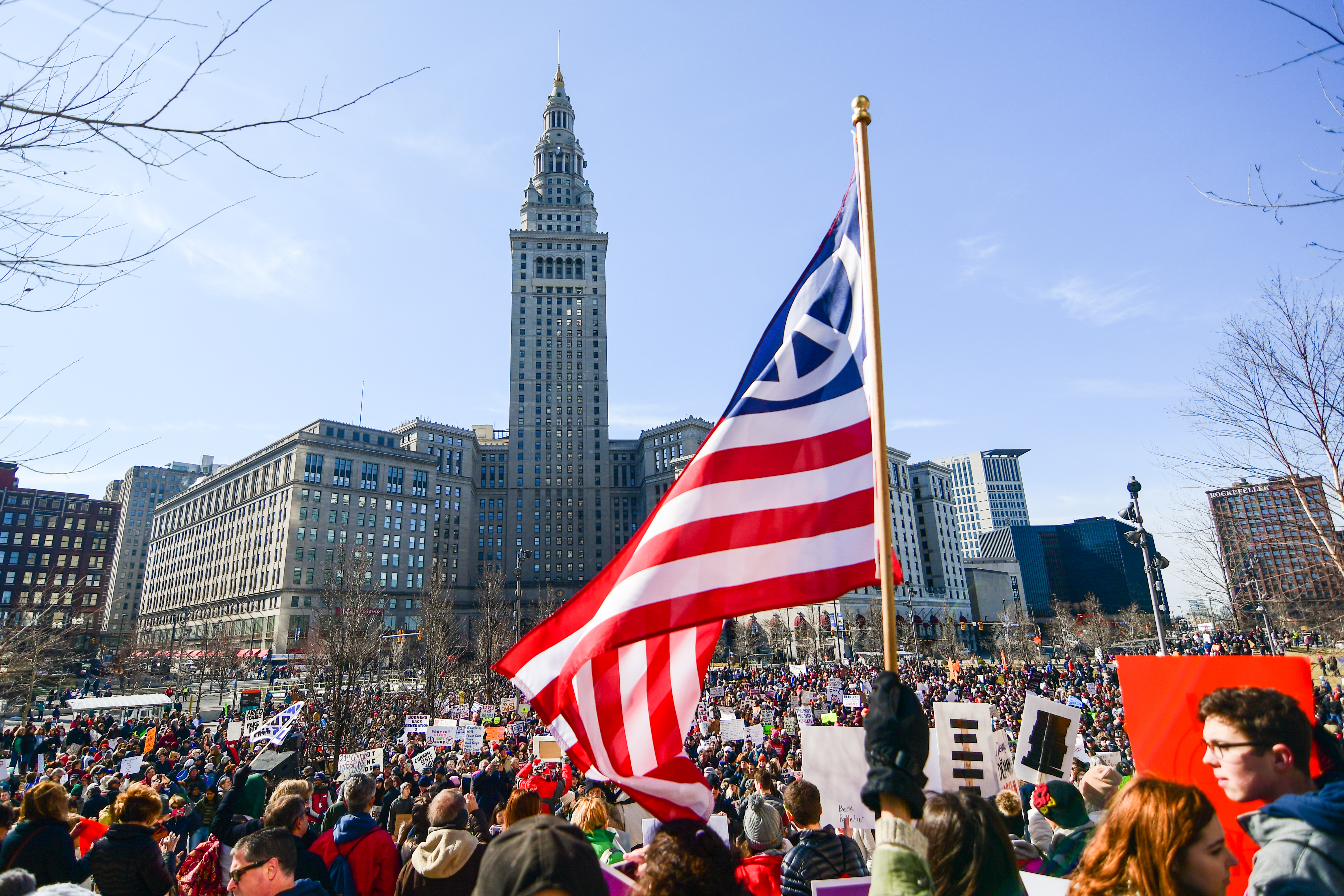 March for Our Lives